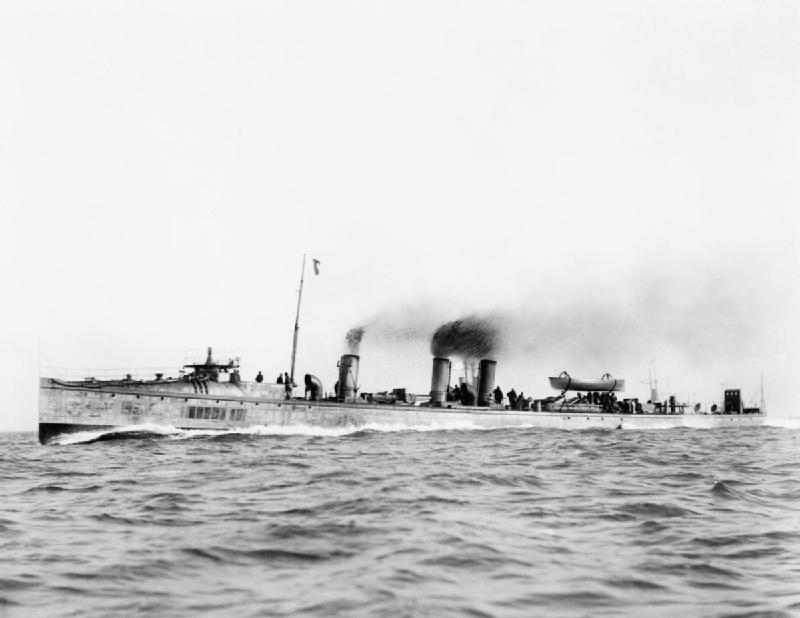 Photograph of British destroyer HMS Conflict.